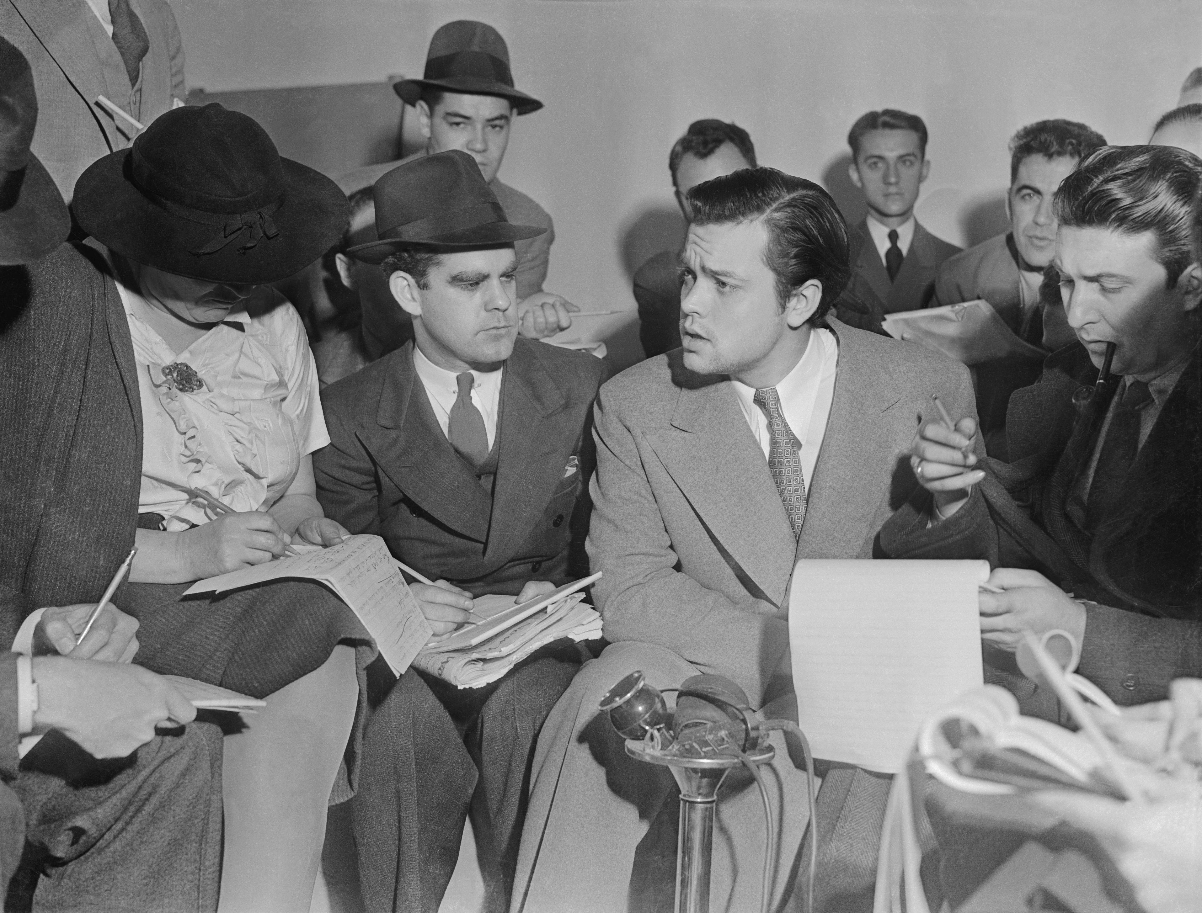 Photo of Orson Welles meeting with reporters in an effort to explain that no one connected with the War of the Worlds radio broadcast had any idea the show would cause panic.